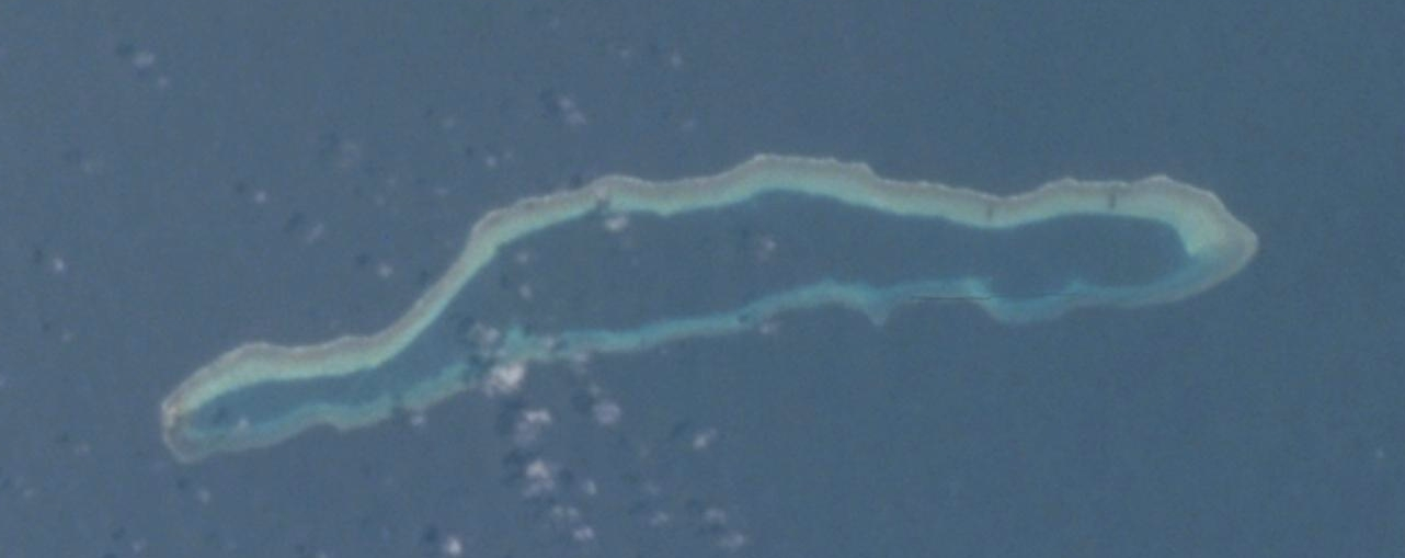 ISS photo of Pocklington Reef, Papua New Guinea